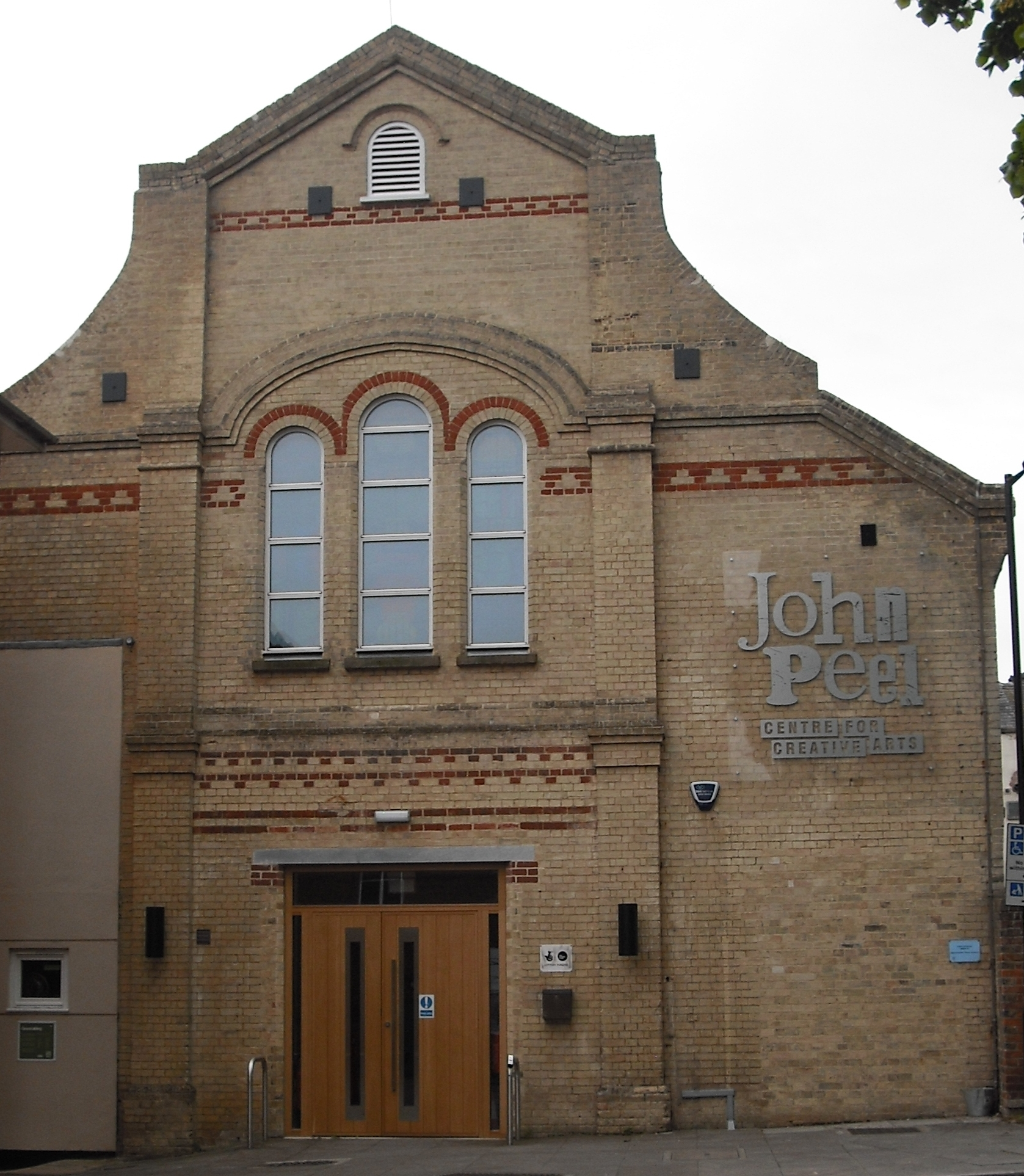 John Peel Centre Centre for Creative Arts, Stowmarket, Suffolk